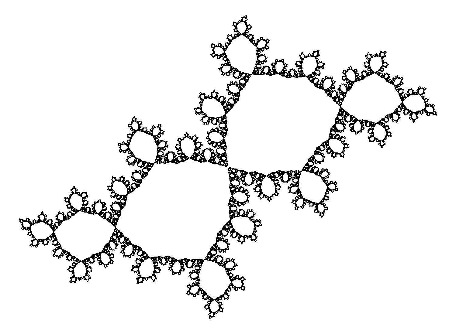 Numerical aproximation of Julia set. Map is complex quadratic polynomial. Parameter c is on boundary of main cardioid of period one component of Mandelbrot set with rotational number ( internal angle ) = Golden Mean. Made with modified inverse iteration method MIIM/J with hit limit. It contains Siegel disc